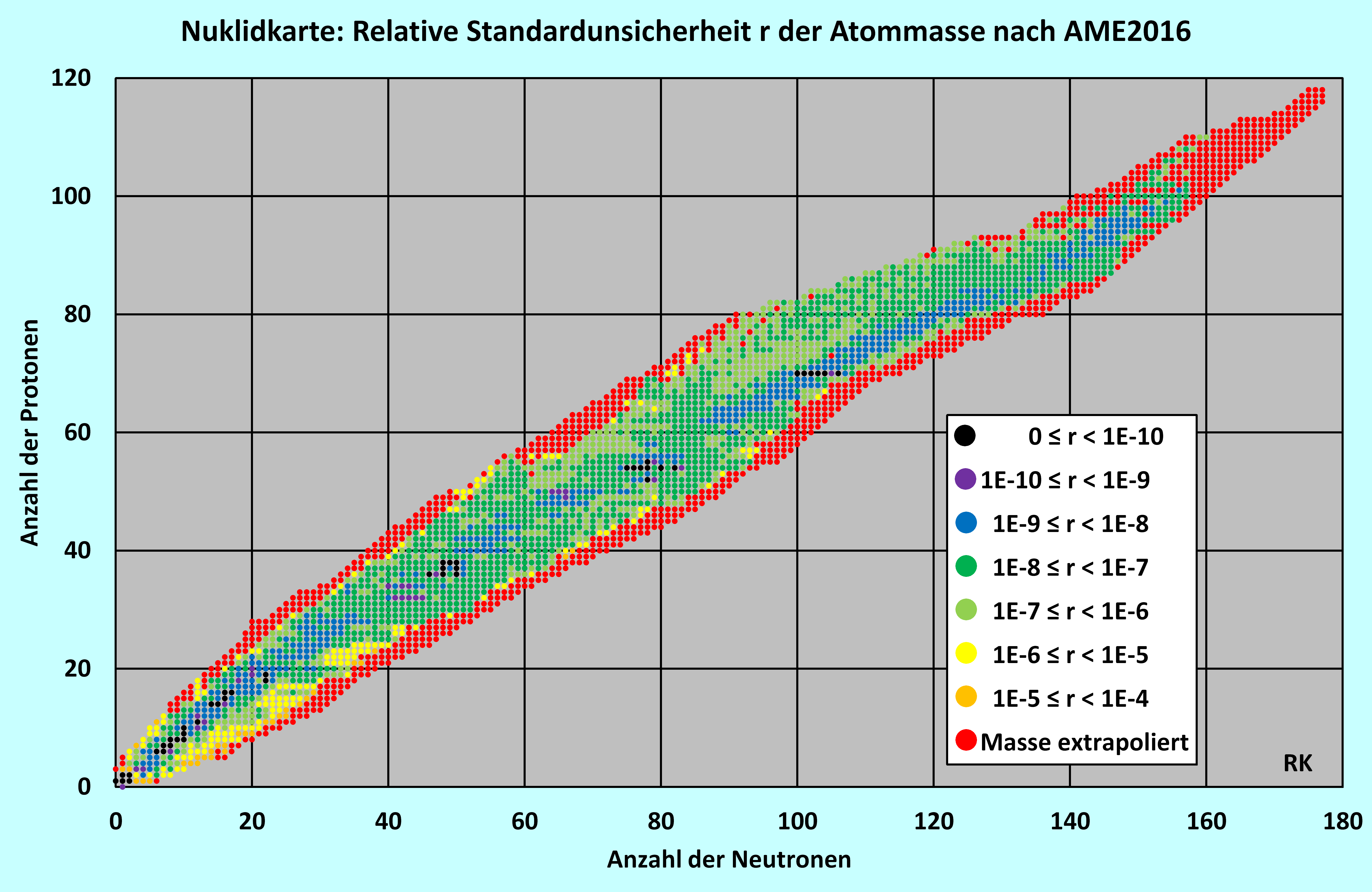 Chart of nuclides: Relative standard uncertainty r of the atomic mass according to AME2016